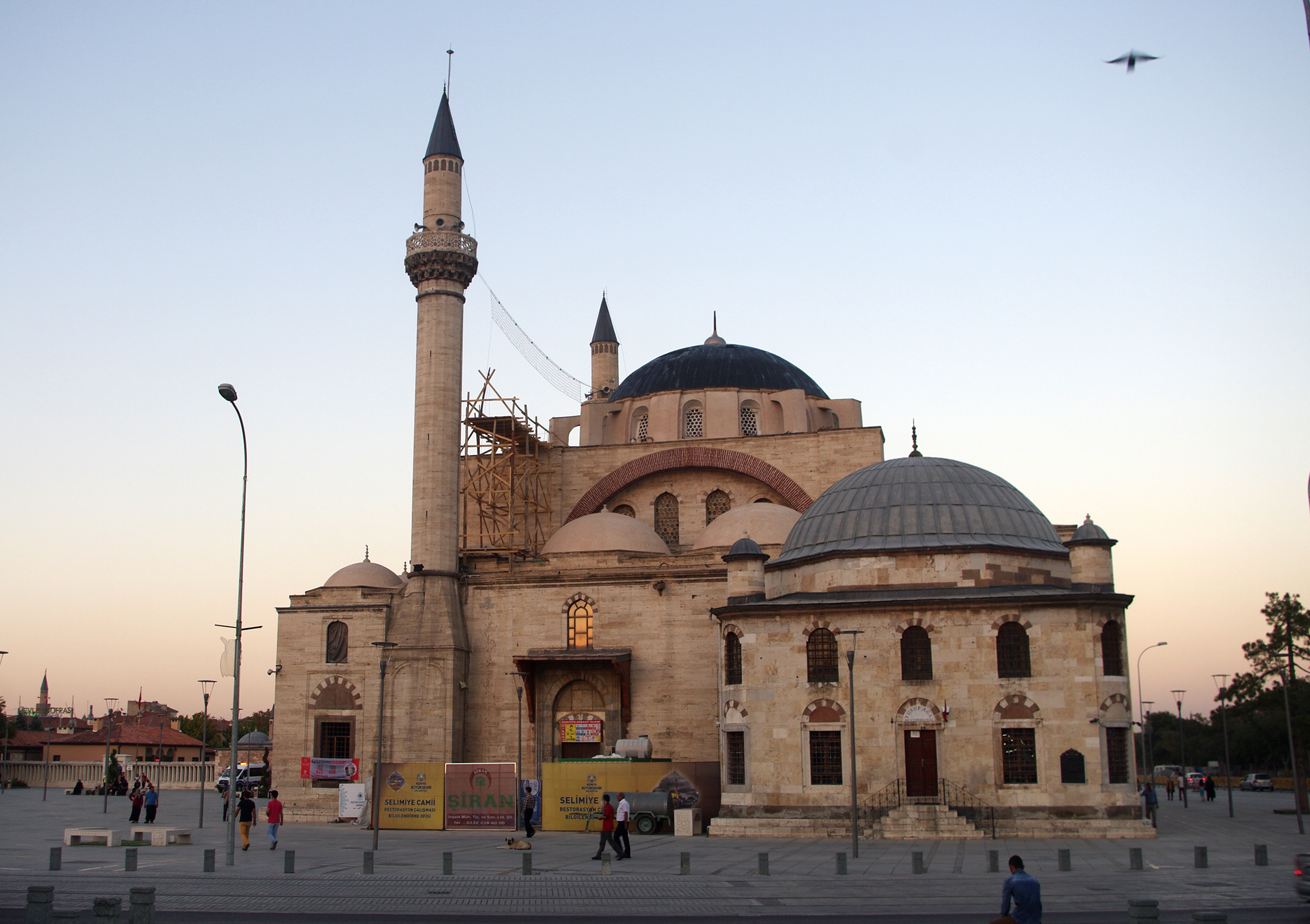 A northern side view of Selimiye Mosque, Konya - Turkey.